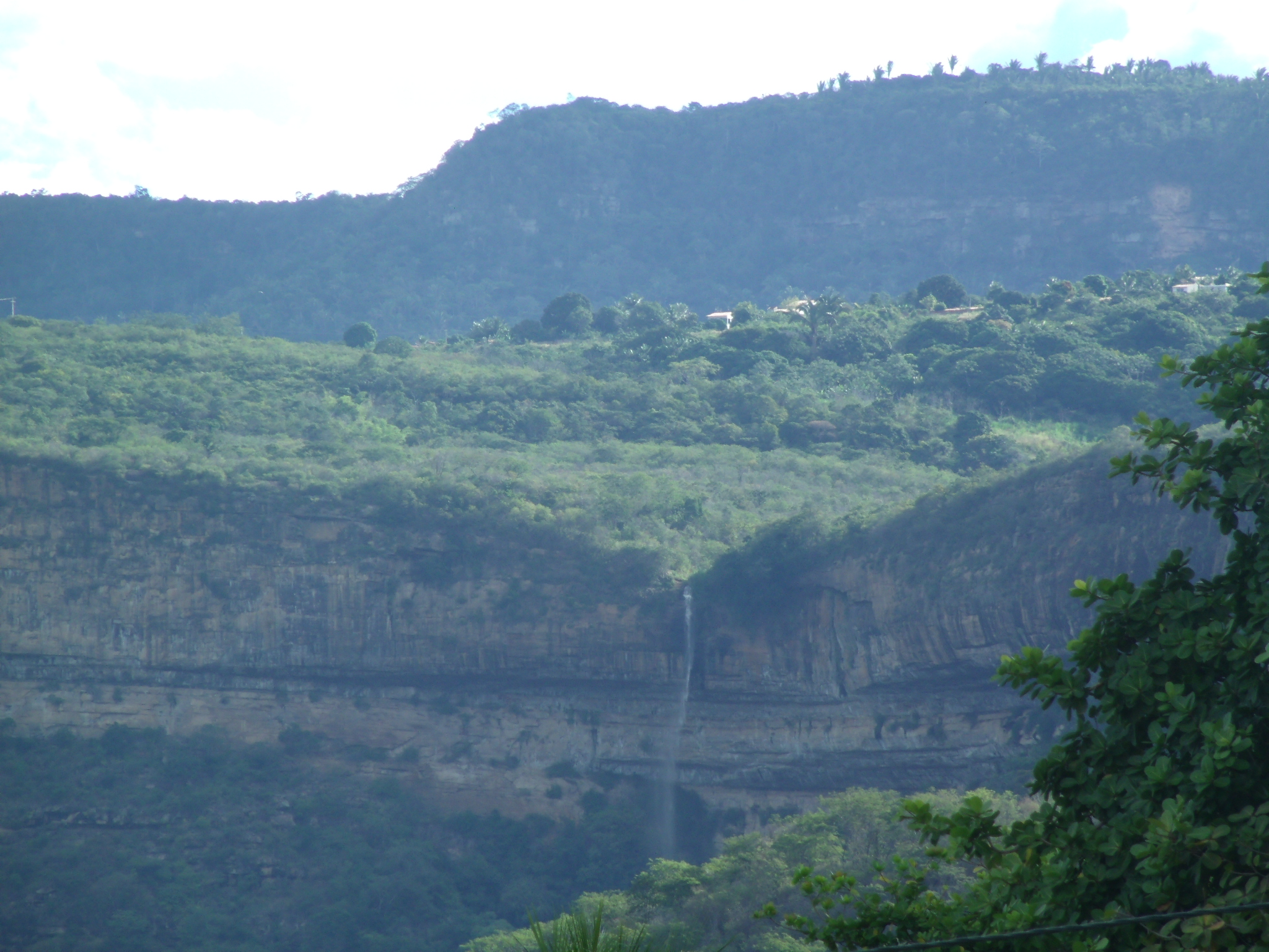 The Serra da Ibiapaba (Ibiapaba mountain) and the Bica do Ipú (Spout of Ipu)